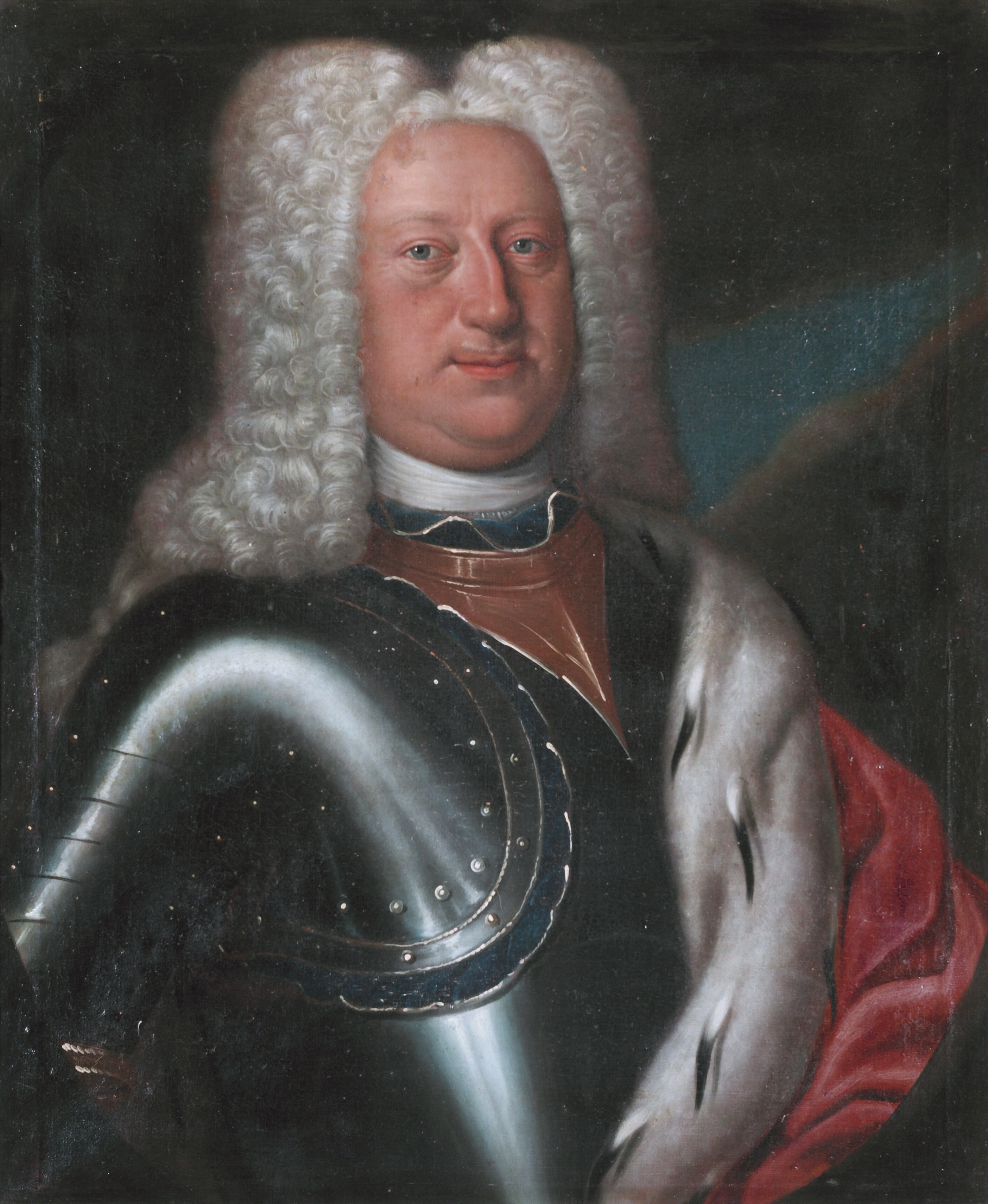 Portrait of Frederick III, Landgrave of Hesse-Homburg (1673-1746)